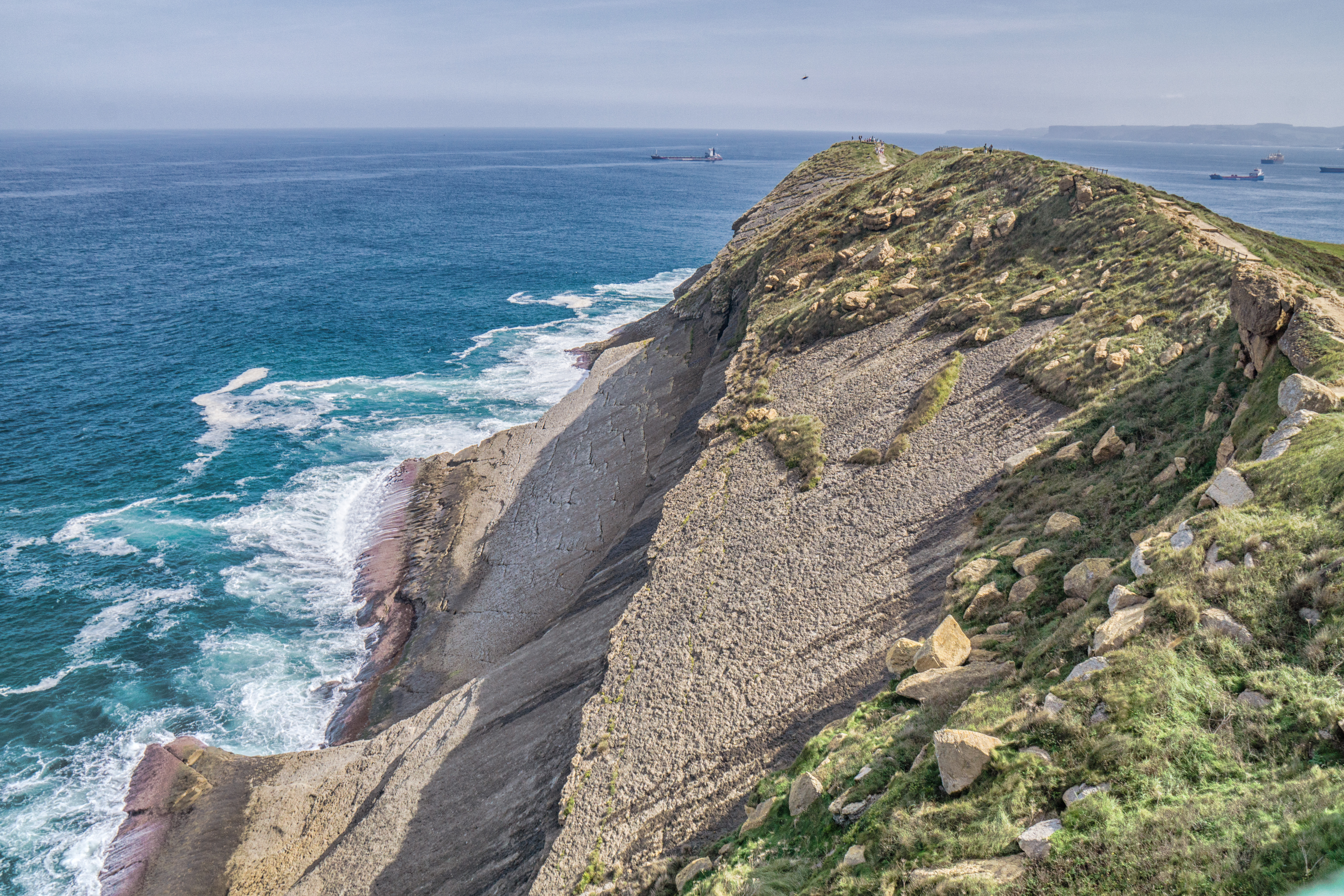 Near the Faro de Cabo Mayor